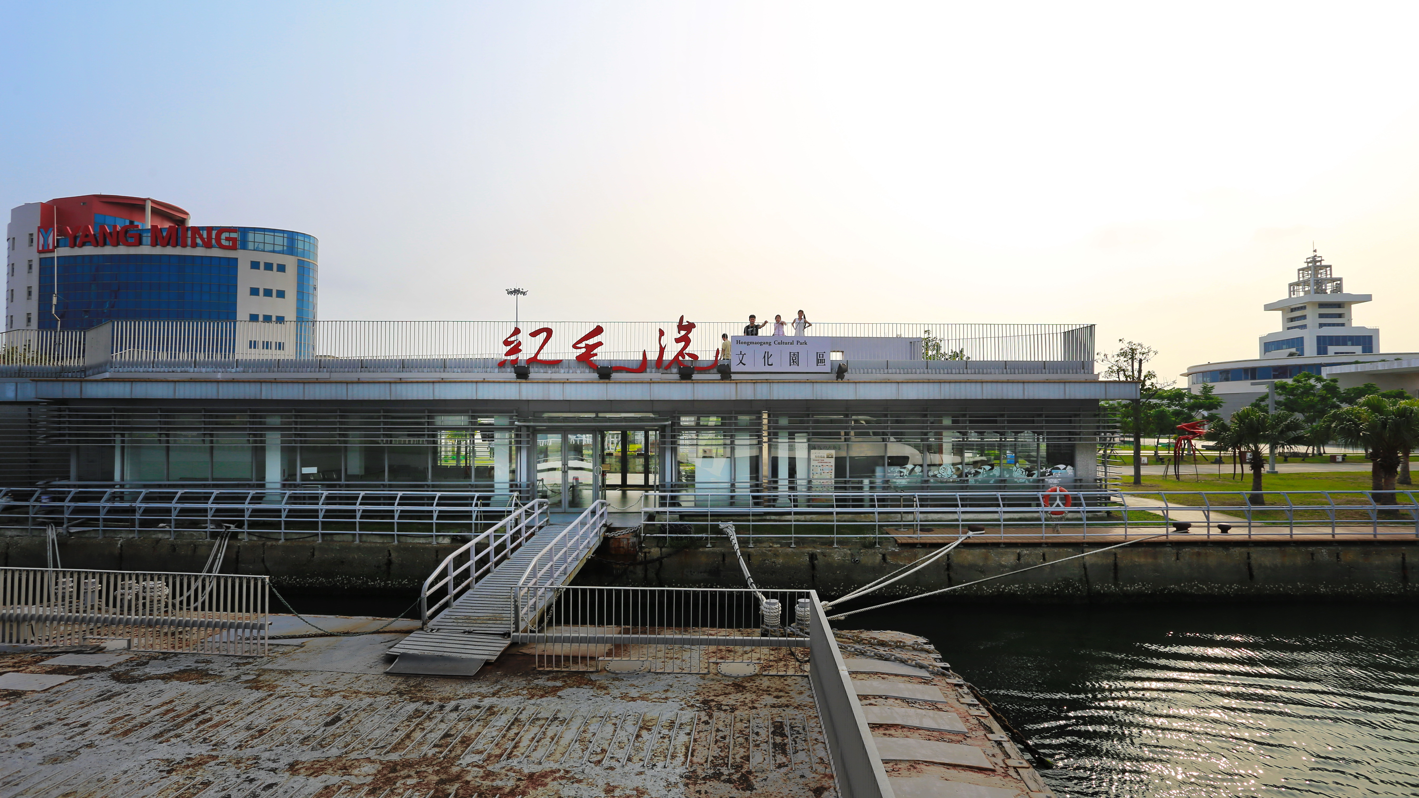 Pier in Hongmaogang Cultural Park, Kaohsiung City, Taiwan.